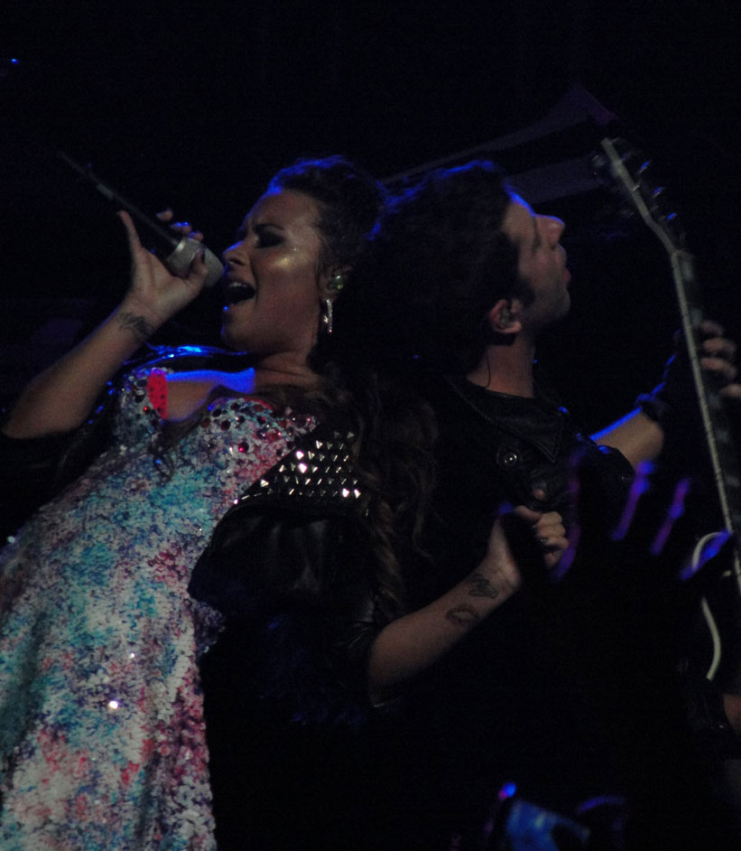 Demi Lovato performing "Here We Go Again" at Club Nokia in Los Angeles